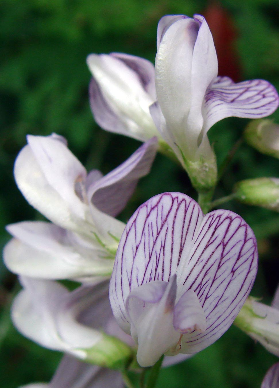 Close-up of Vicia sylvatica, Ehingen, Germany